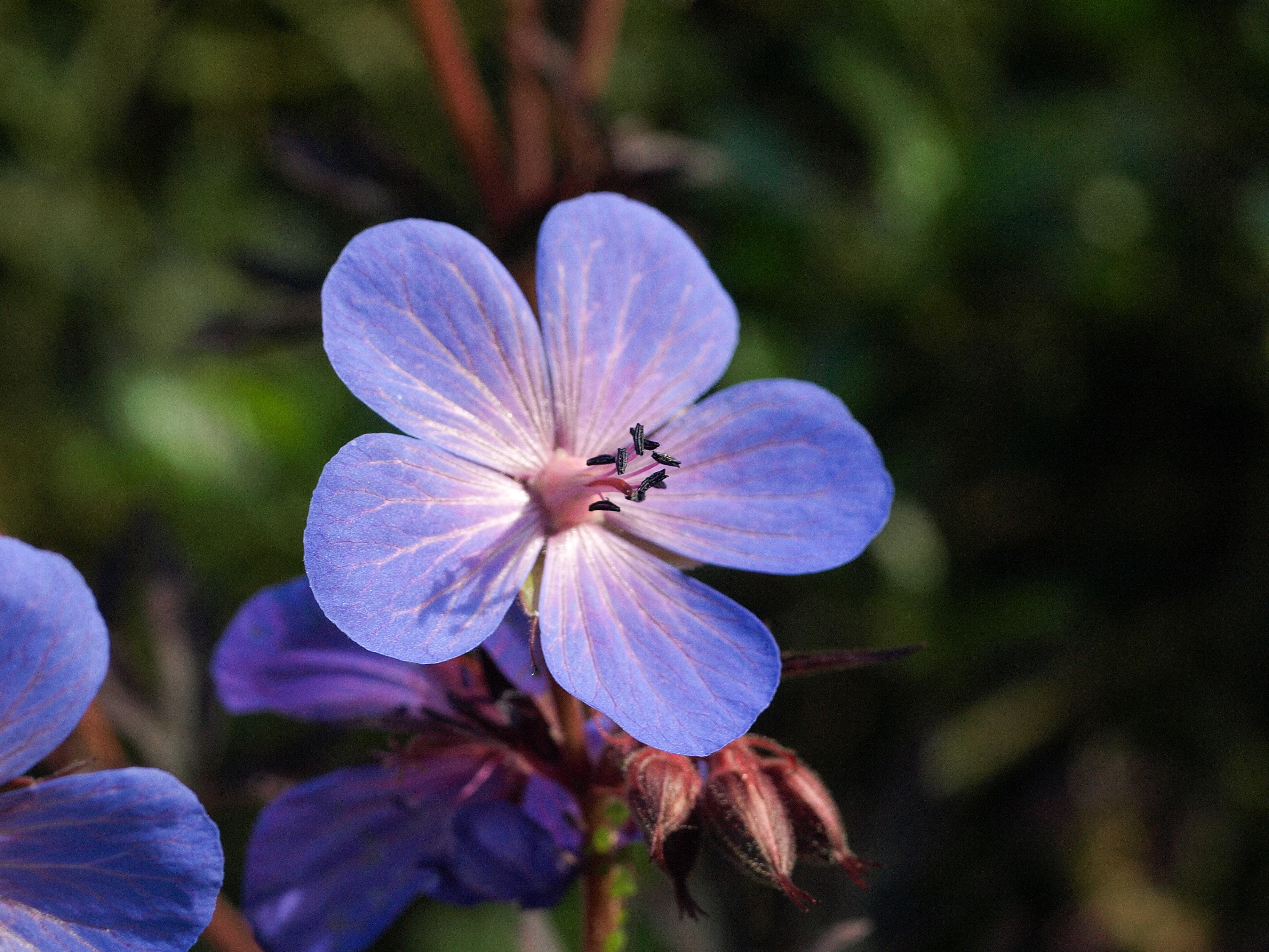 Nepalese Cranesbill (Geranium himalayense).